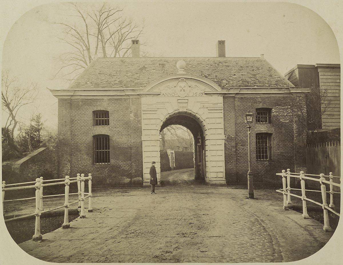 Hogewoerdsbuitenpoort. City gate of the city of Leiden. Demolished.